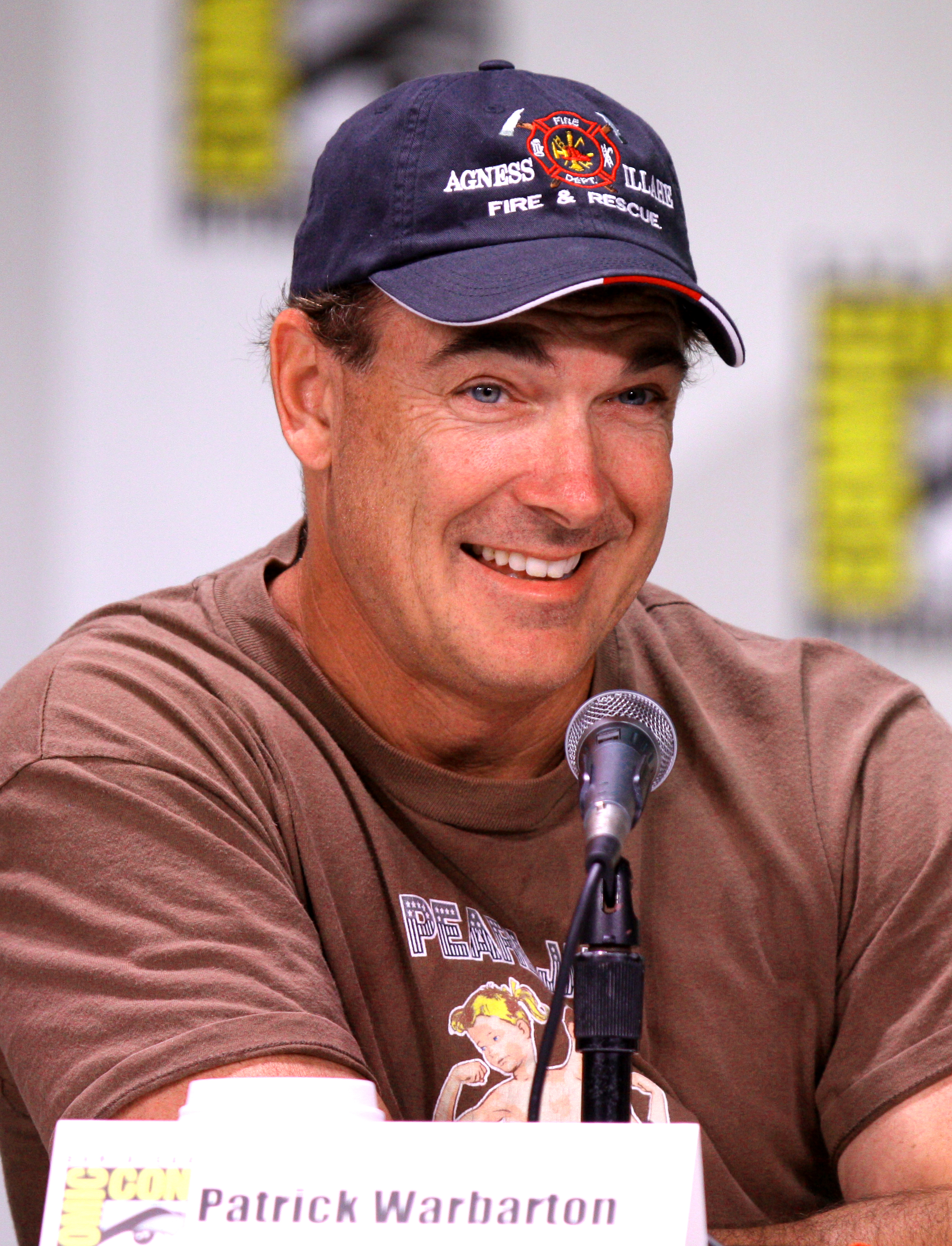 Patrick Warburton at the 2011 Comic Con in San Diego